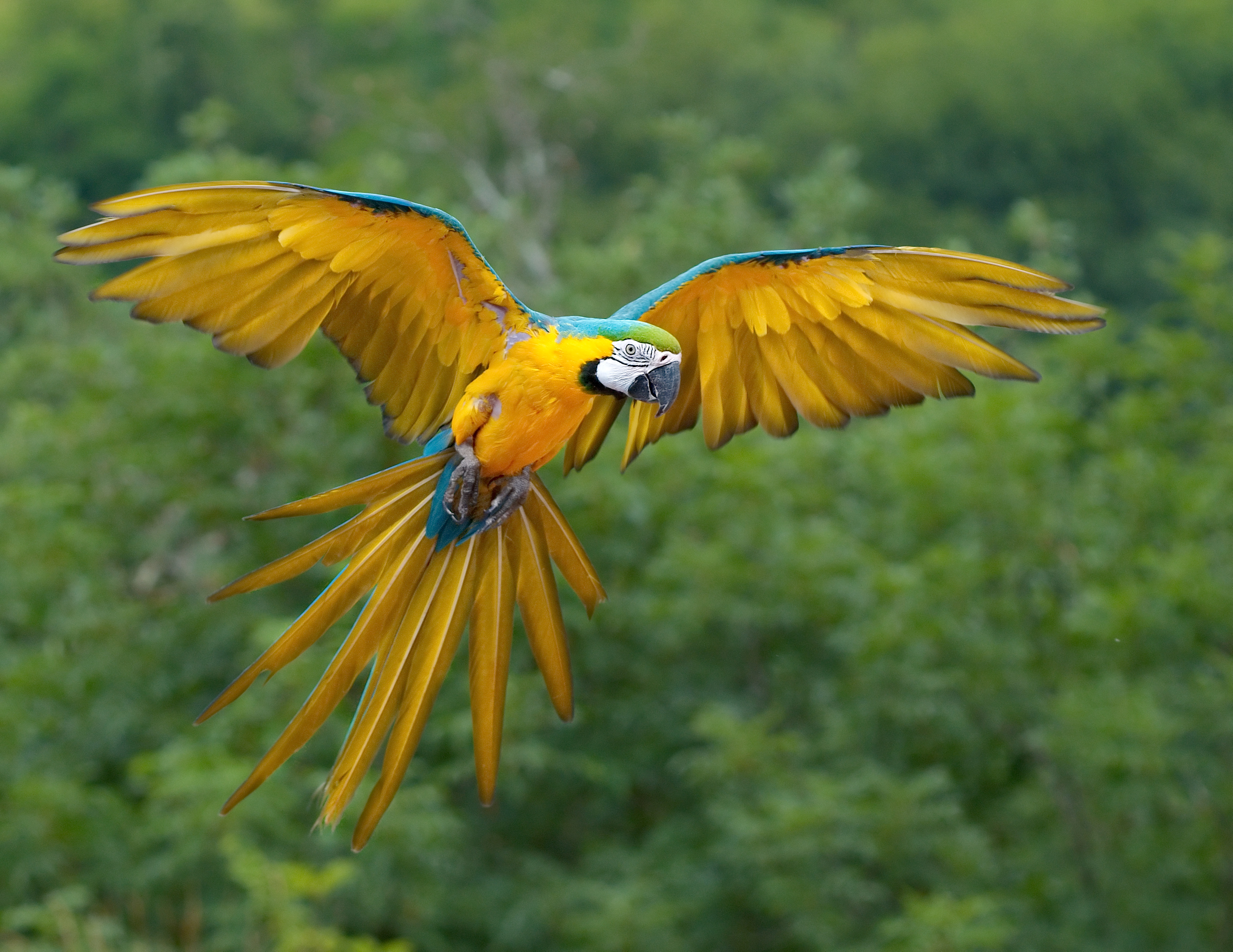 Blue-and-yellow Macaw in flight.